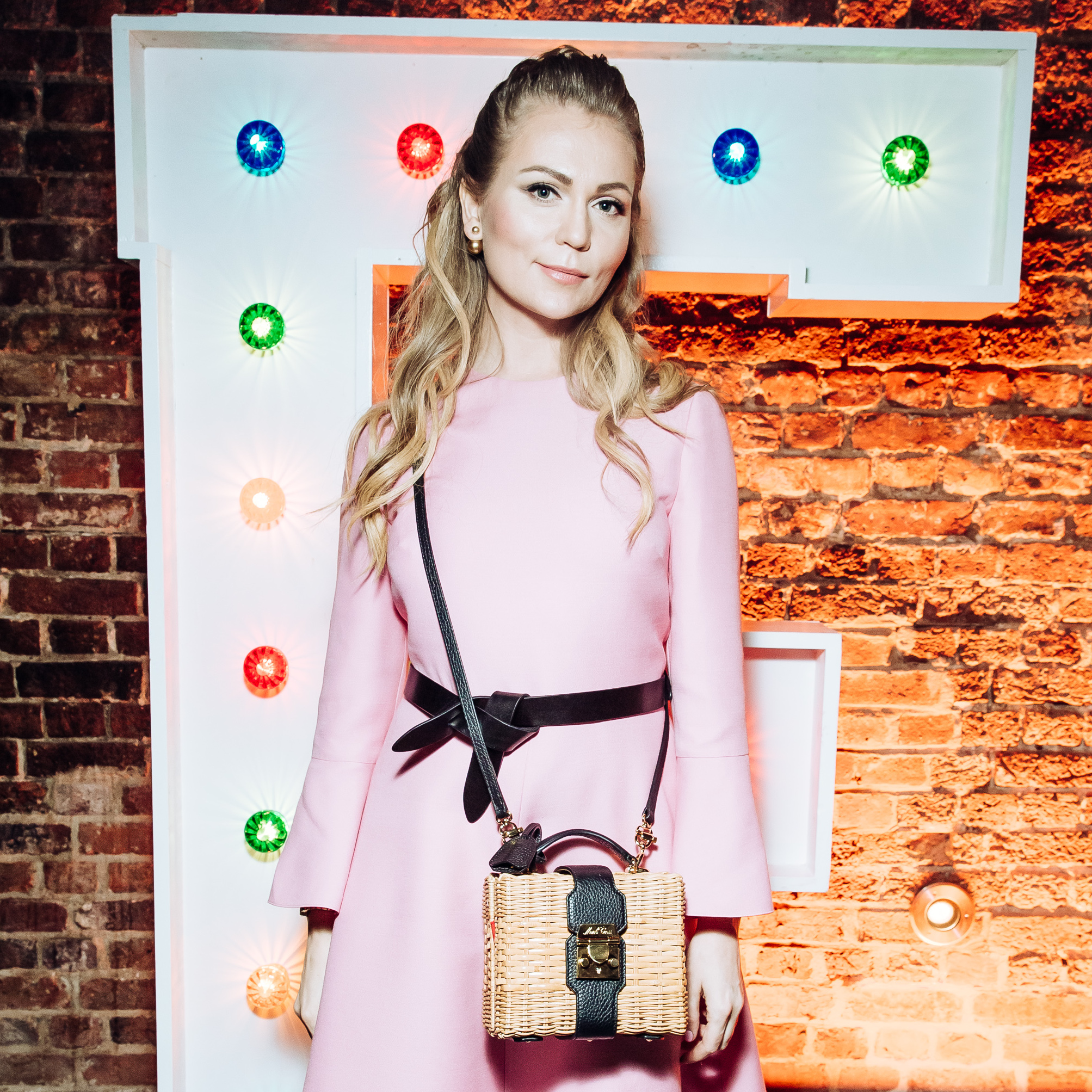 Private foto Olga Lomaka